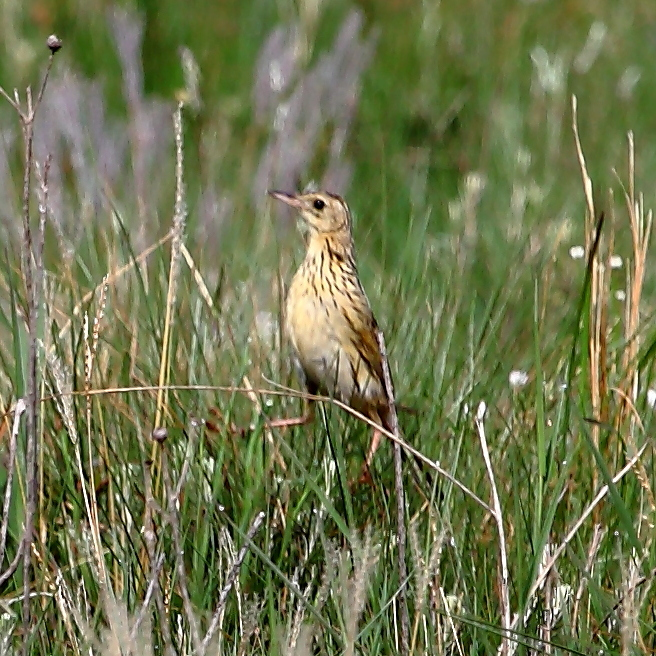 Ochre-breasted Pipit at Serra da Canastra National Park - MG - Brazil